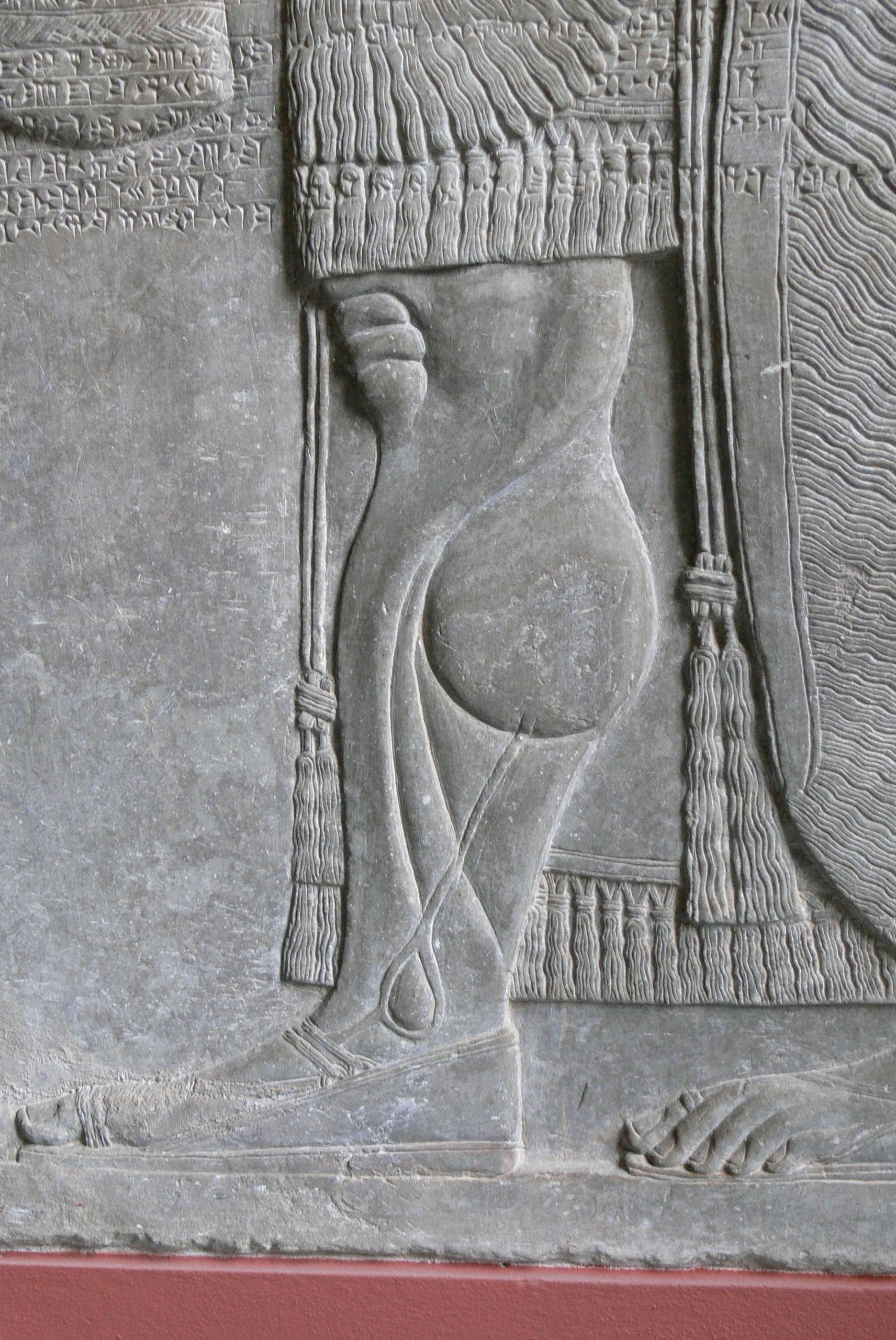 Museum of Ancient Near East ( Berlin ). Relief of the Assyrian king Assurnasirpal II ( 9th century BC ) - detail.